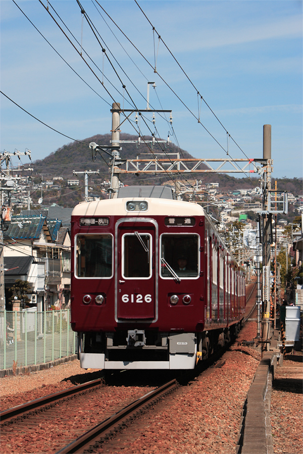 Hankyu Railway Koyo Line